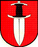 Blazon of Tägerwilen, Canton of Thurgau, SwitzerlandEsperanto: Blazono de Tägerwilen, Kantono Turgovio, Svislando